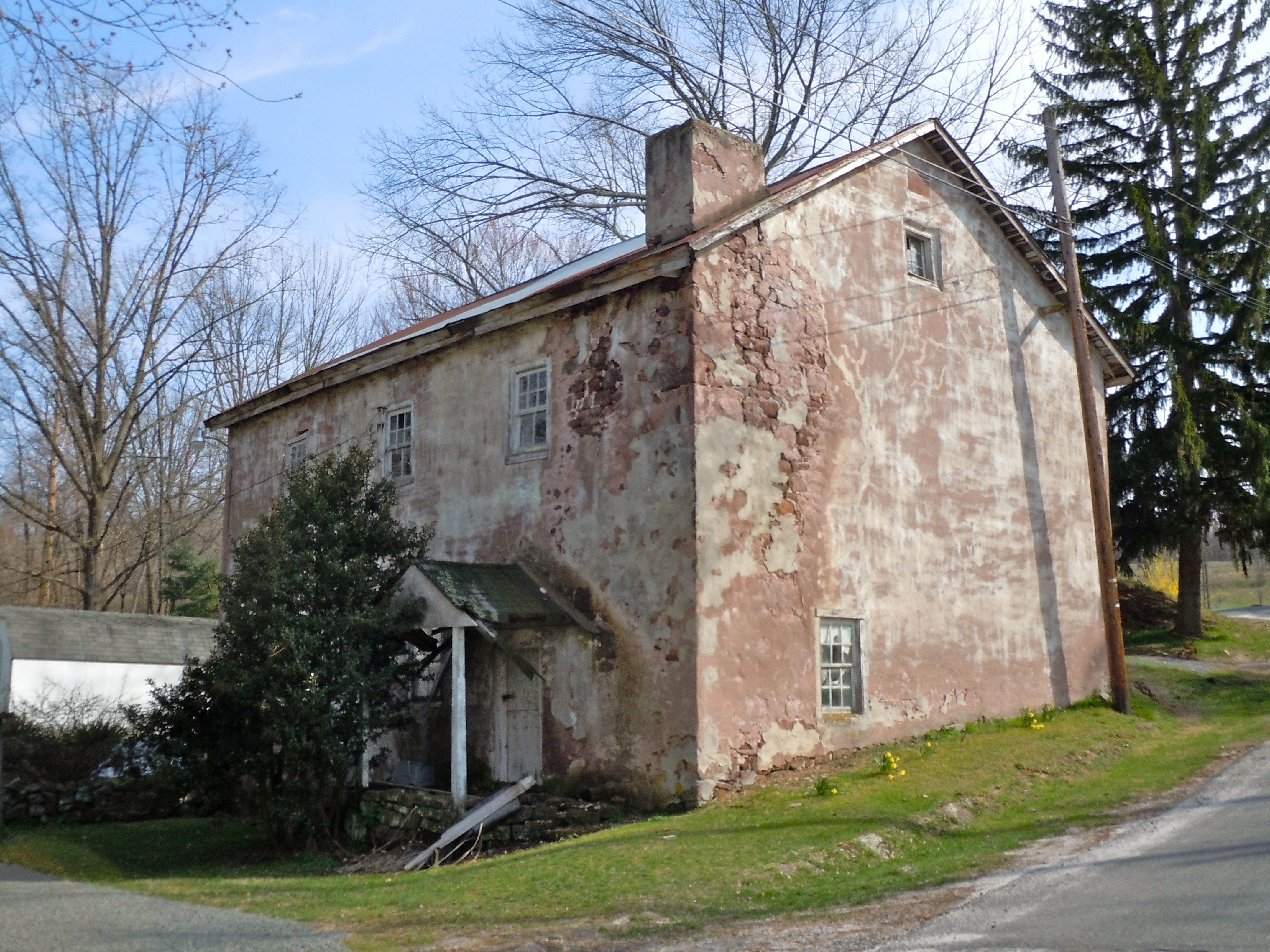 Geiger Mill on the NRHP since November 8, 1990 . Near junction of Mill Road and Pennsylvania Route 82 in Geiger, Robeson Township, Berks County, Pennsylvania (west of French Creek State Park). This is the main mill building as far as I can tell, but the house next to it is obviously important, and there are 3-4 nearby buildings that look to be related.